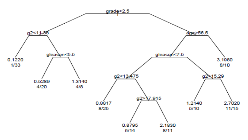 Survival tree for prostate cancer for stagec data set from R package rpart